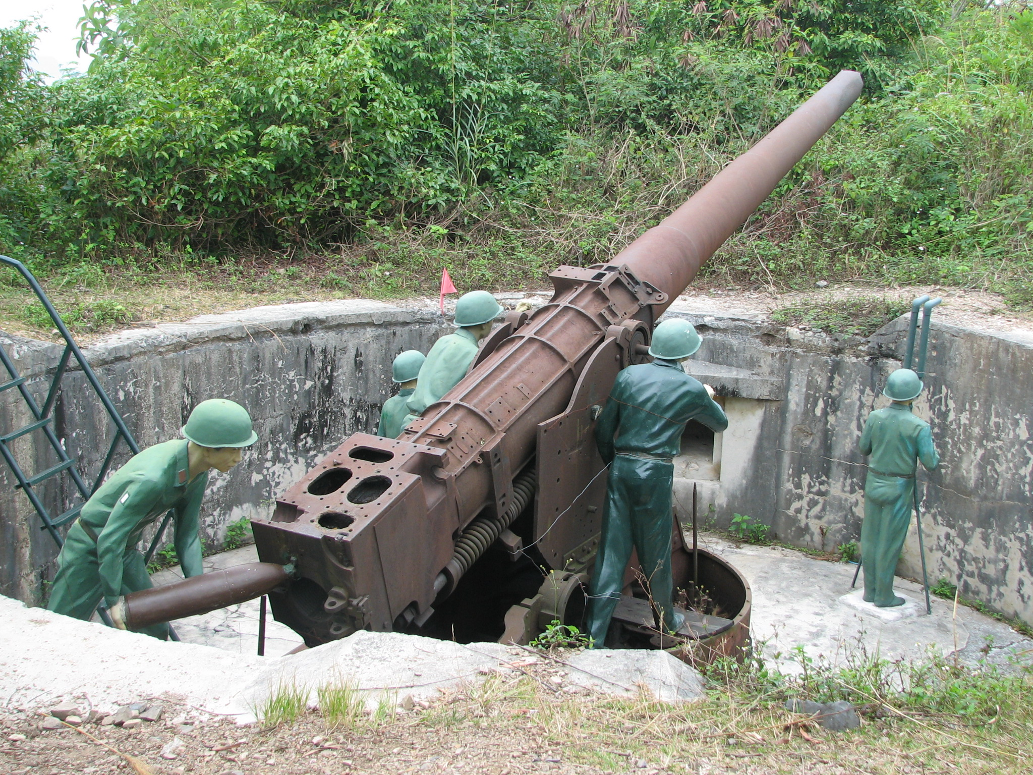 Cat Ba Town - Defence Display